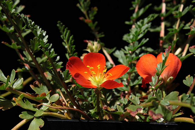 Hypseocharis pimpinellifolia plant in cultivation, California, USA.